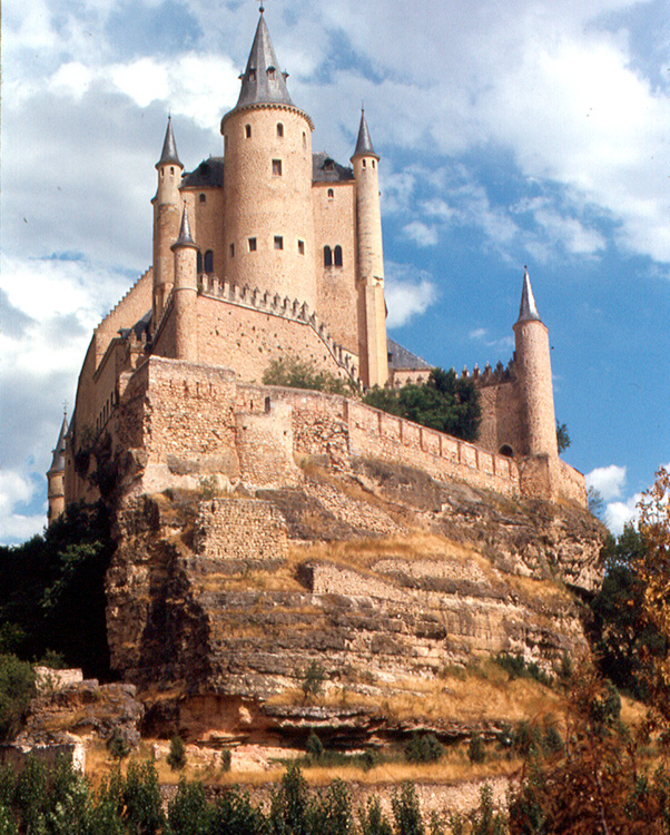 The Alcazar, at the confluence of the Eresma and Clamores Rivers, evolved over several centuries. The site had probably been fortified in Roman times, or even earlier. The Alcazar was probably begun in the 12th century or earlier. It is about 100 m (330 ft) over the valley. The large tower was built by King John II in 1454. At this point, the Alcazar had something like its current appearance. There were further changes and deterioration. The castle was restored to its earlier state in the late 19th century.